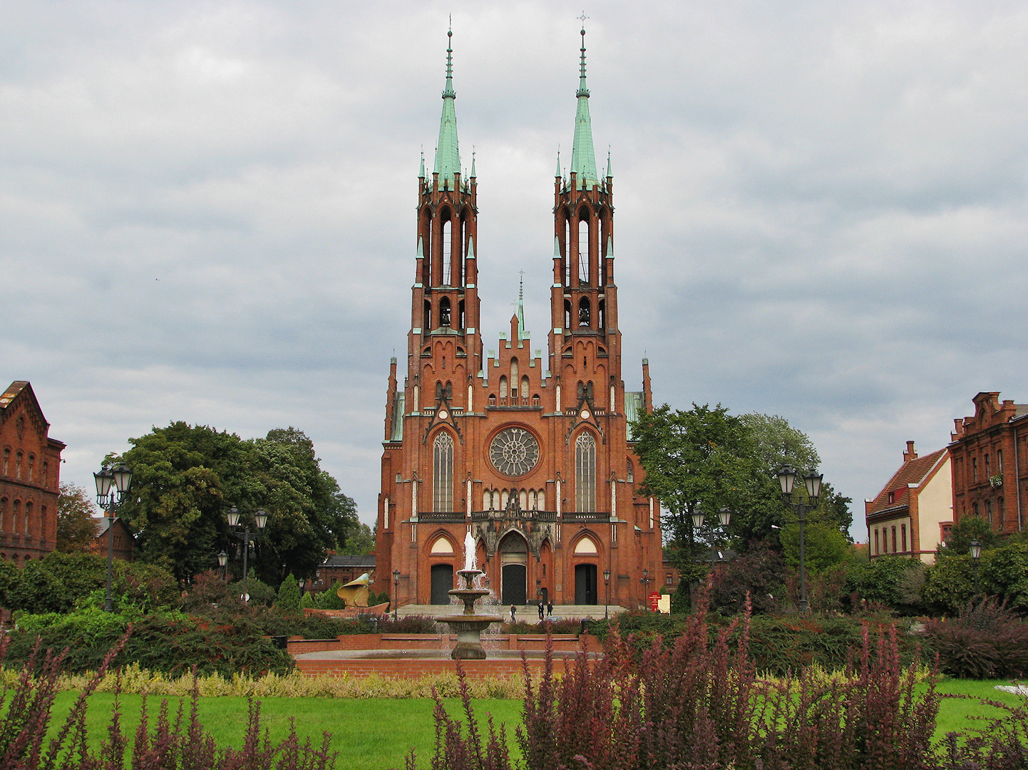 This is the actual centre of the town. John Paul II square, Gothic revival church built 1900-1903, a fountain and some plants.